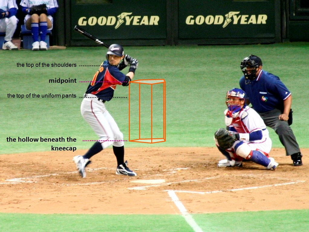 Explanation of strike zone